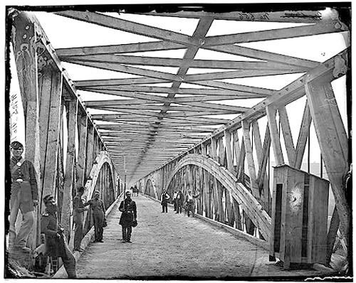 from the digital collection of Mike Manning. From the book "Intrepid" by Mike Manning, ©2005